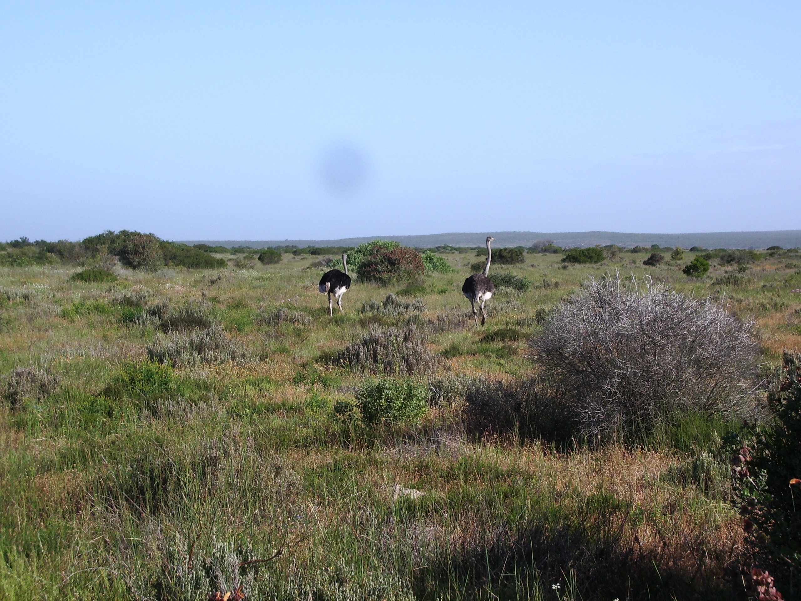 Ostrich at the Westcoast National Park, South Africa